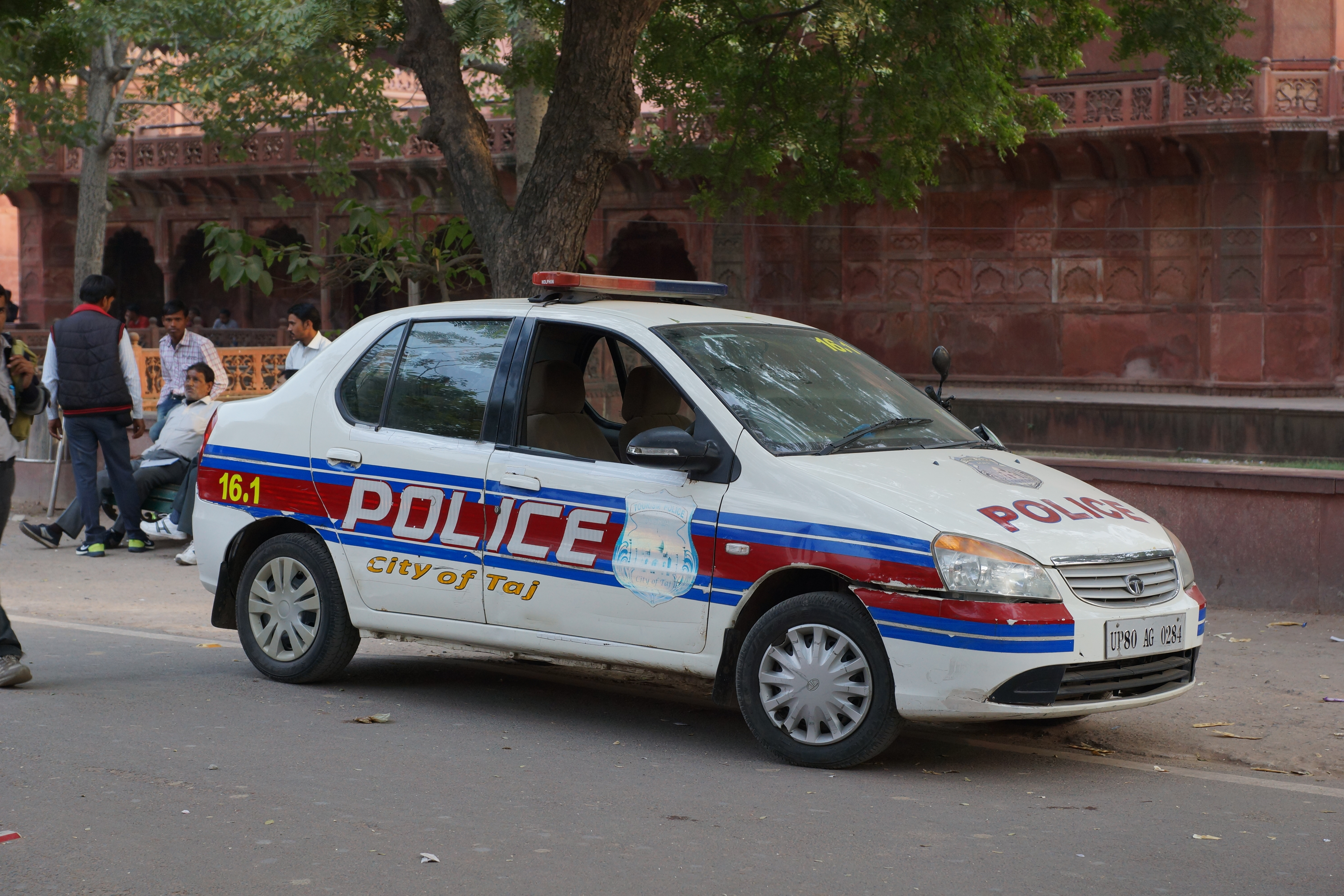 POLICE CAR - CITY OF TAJ - AGRA - DSC03511 This is one of a series of photographs taken by Julian Mason whilst visiting India in November --Julian Mason December 2015.